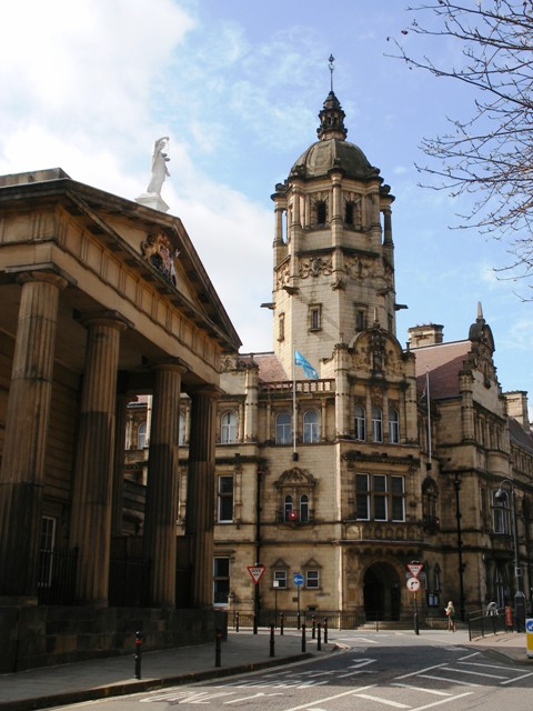 County Hall Creative Commons Attribution Share-alike license 2.0 Licensing This image was taken from the Geograph project collection. See this photograph's page on the Geograph website for the photographer's contact details. The copyright on this image is owned by SMJ and is licensed for reuse under the Creative Commons Attribution-ShareAlike 2.0 license. Attribution: SMJ